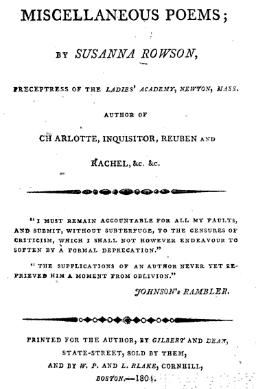 From: Susanna Rowson. Miscellaneous poems. (Boston: Gilbert & Dean, 1804)